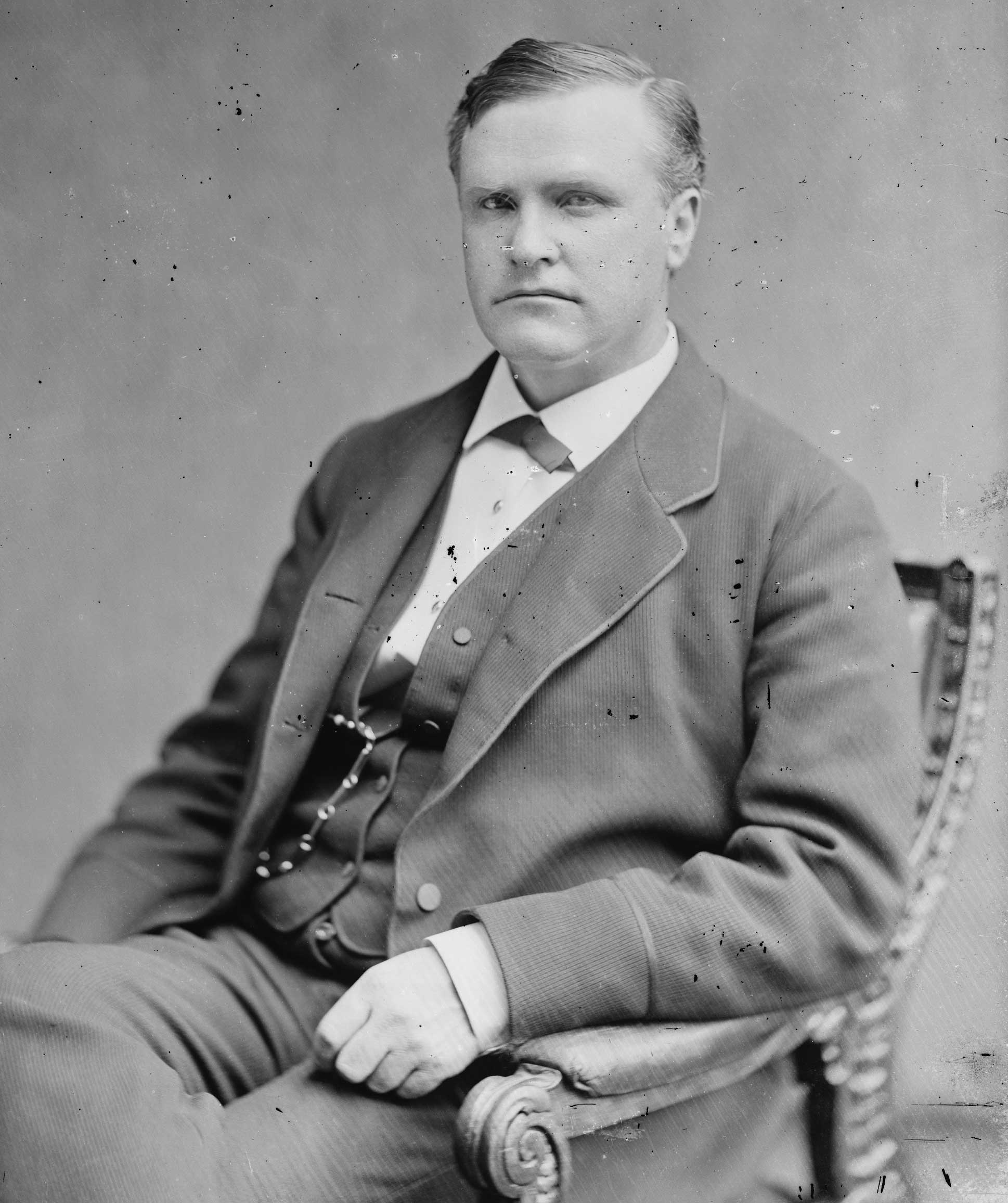 Stephen Benton Elkins, former Secretary of War.